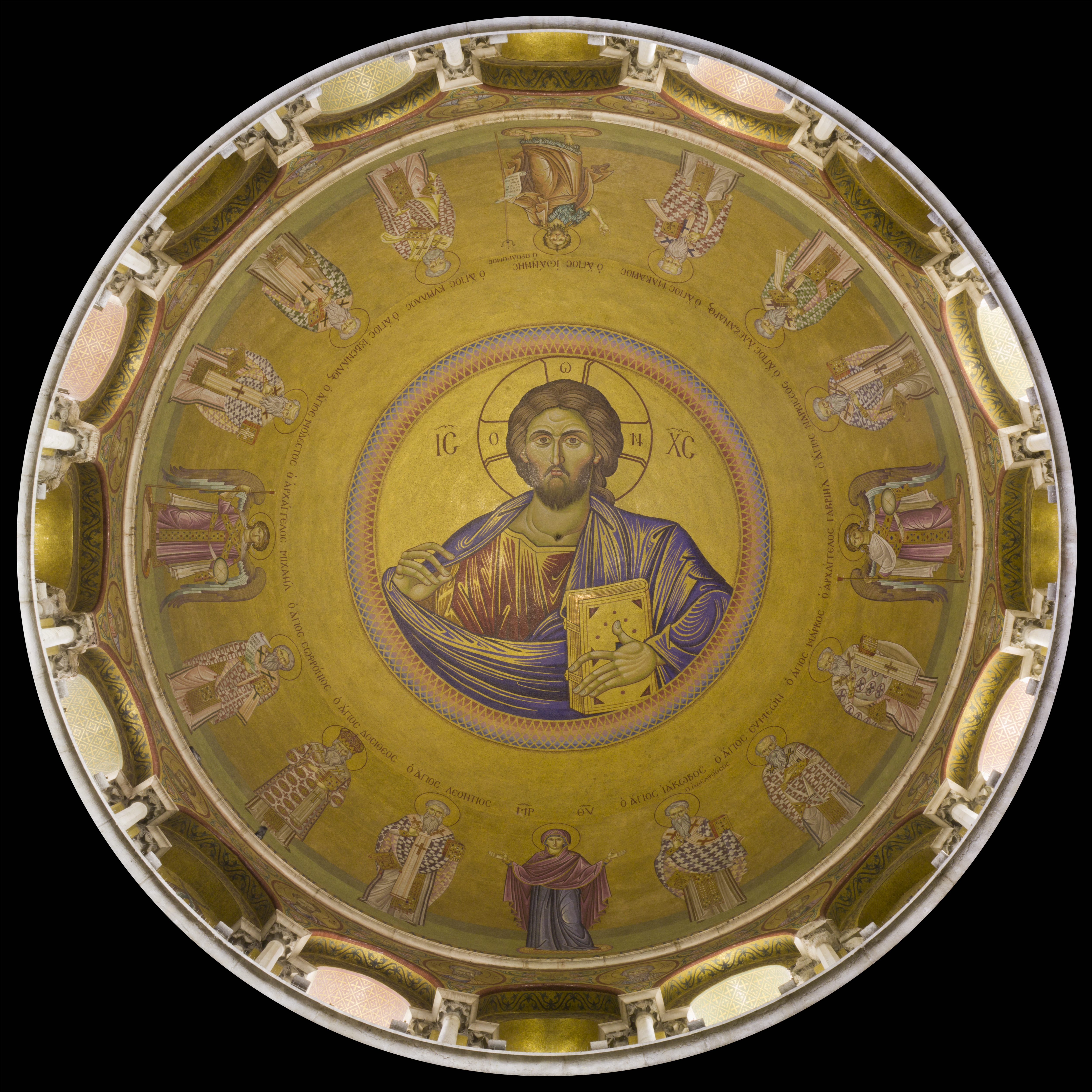 A view (directly overhead) of a Christ Pantocrator in the dome of the Church of the Holy Sepulchre, Old City of Jerusalem. Circular crop applied.